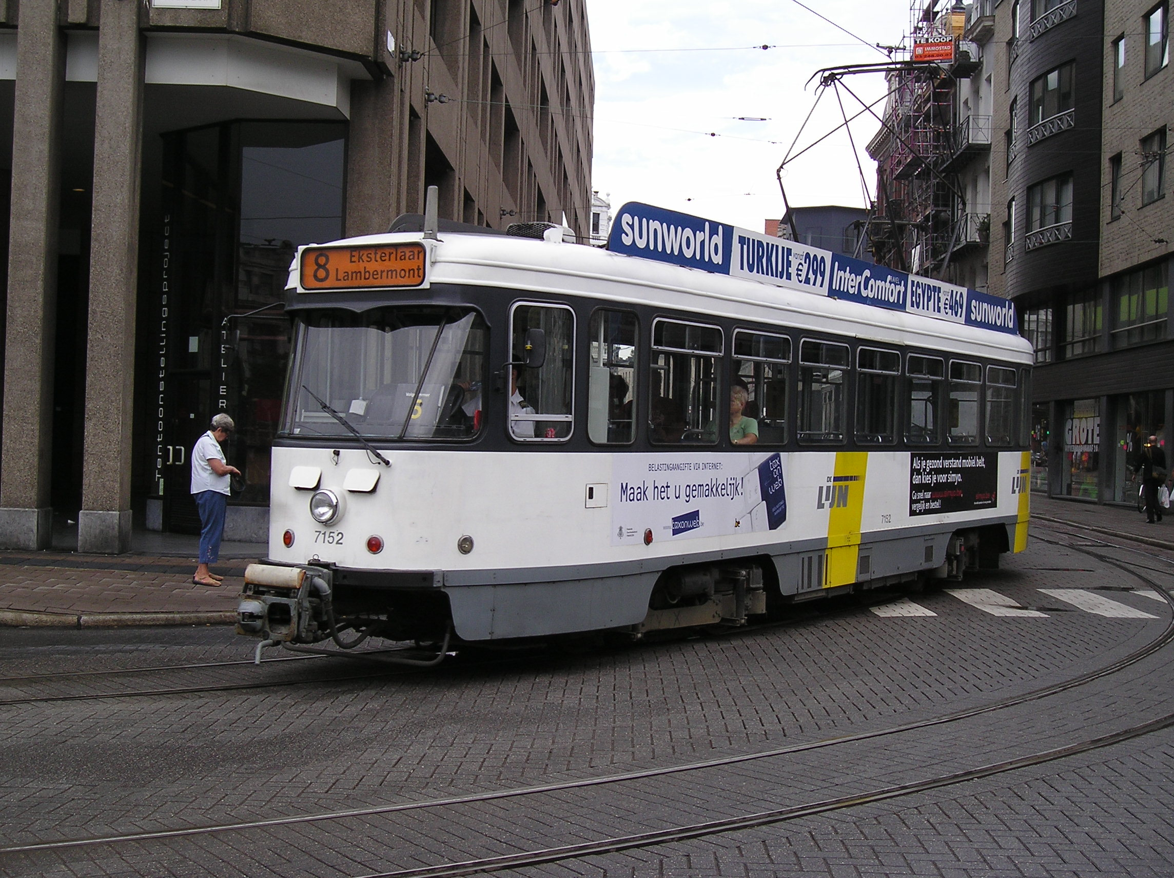 Type PCC tram in Antwerp, July 23, 2006 This tram is about 40 years old - still runnig!